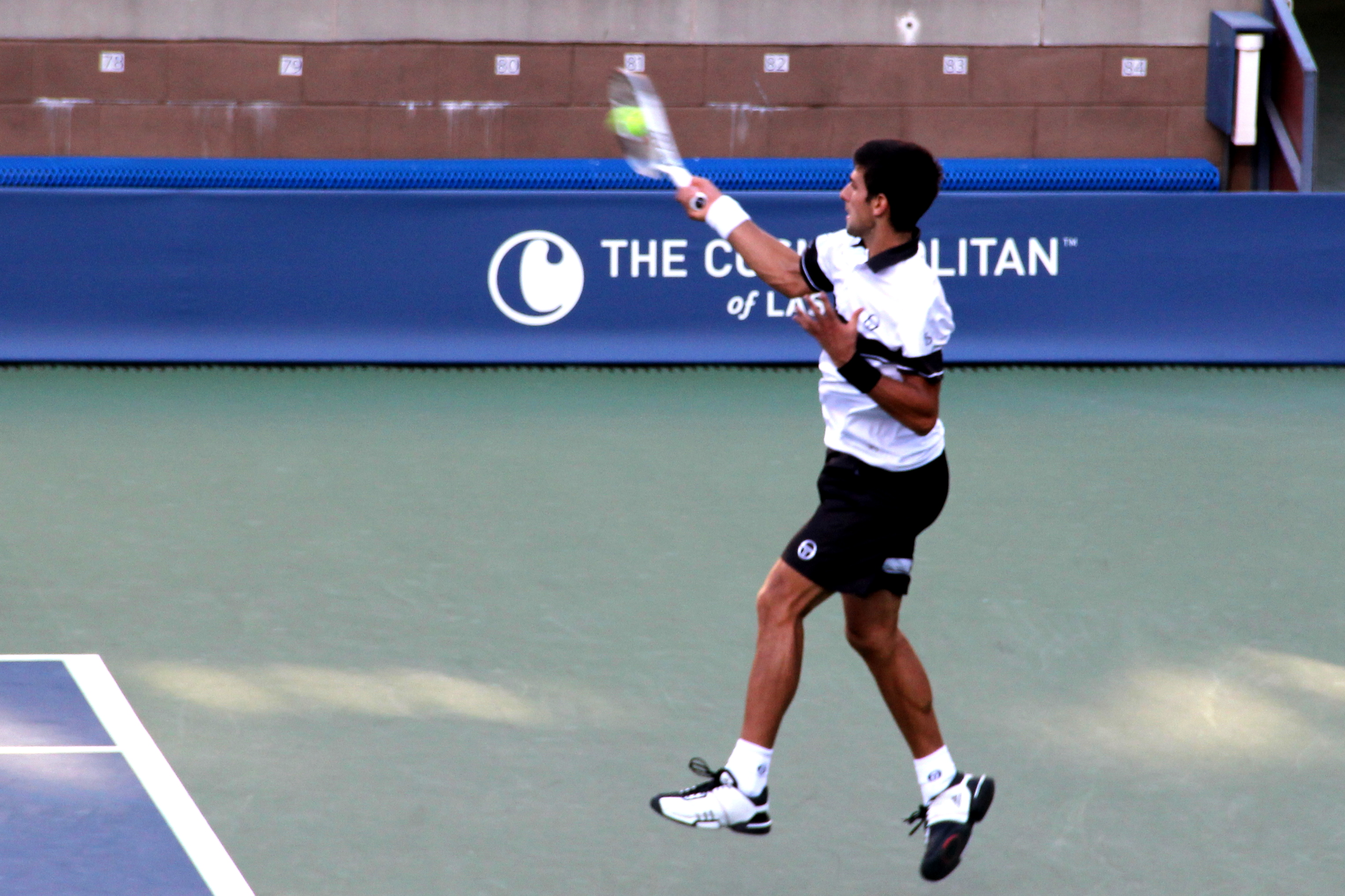 Novak Djokovic on Wednesday at the US Open where he won against Gael Monfils. The Cosmopolitan is in New York for the 2010 US Open, inviting attendees and guests to experience signature views from our Overlook and in our custom designed suite with prime-stadium seating. For more information on The Cosmopolitan visit